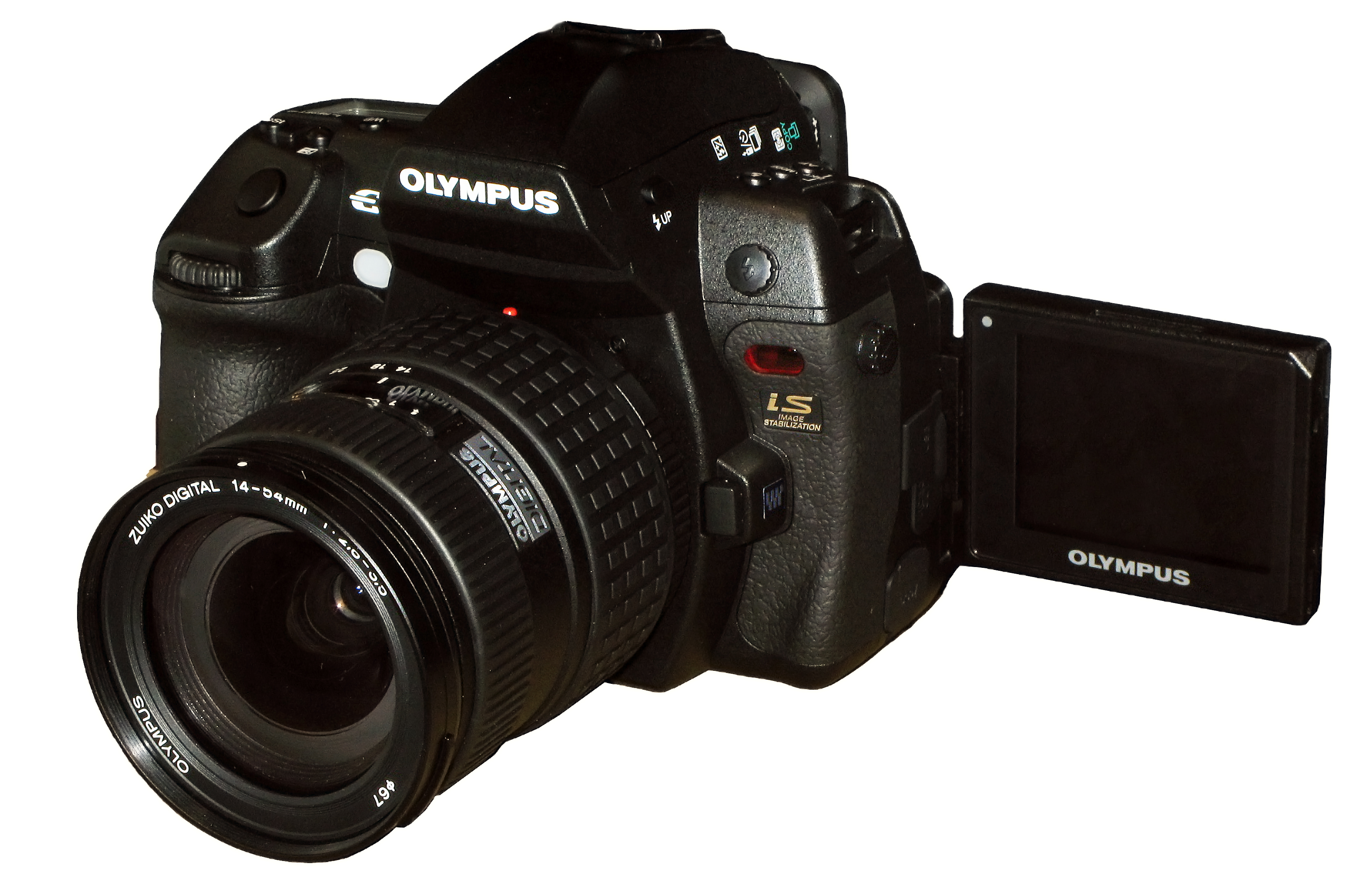 An Olympus E-3 with the articulating LCD screen out.